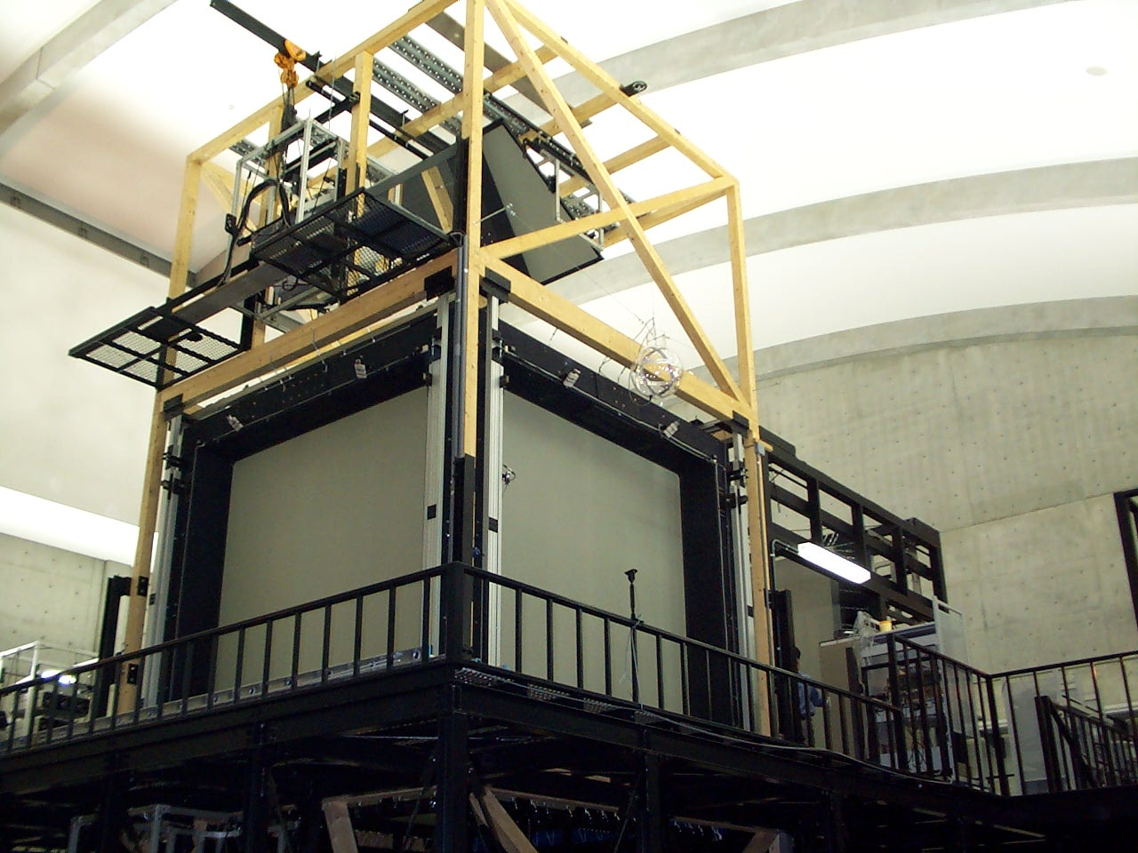 The COSMOS ("COsmic Scale Multimedia Of Six-faces") at the Gifu VR Techno Center. The COSMOS is a six-screen CAVE system - stereoscopic computer images are rear-projected on four walls, the floor, and the ceiling, completely surrounding users. Rear view; the Polhemus FasTrak tracking system's Long Ranger transmitter is visible on one side.